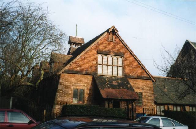 St Hilda's church hall, Courtrai Road. Late 19th century church building now used as the church hall.